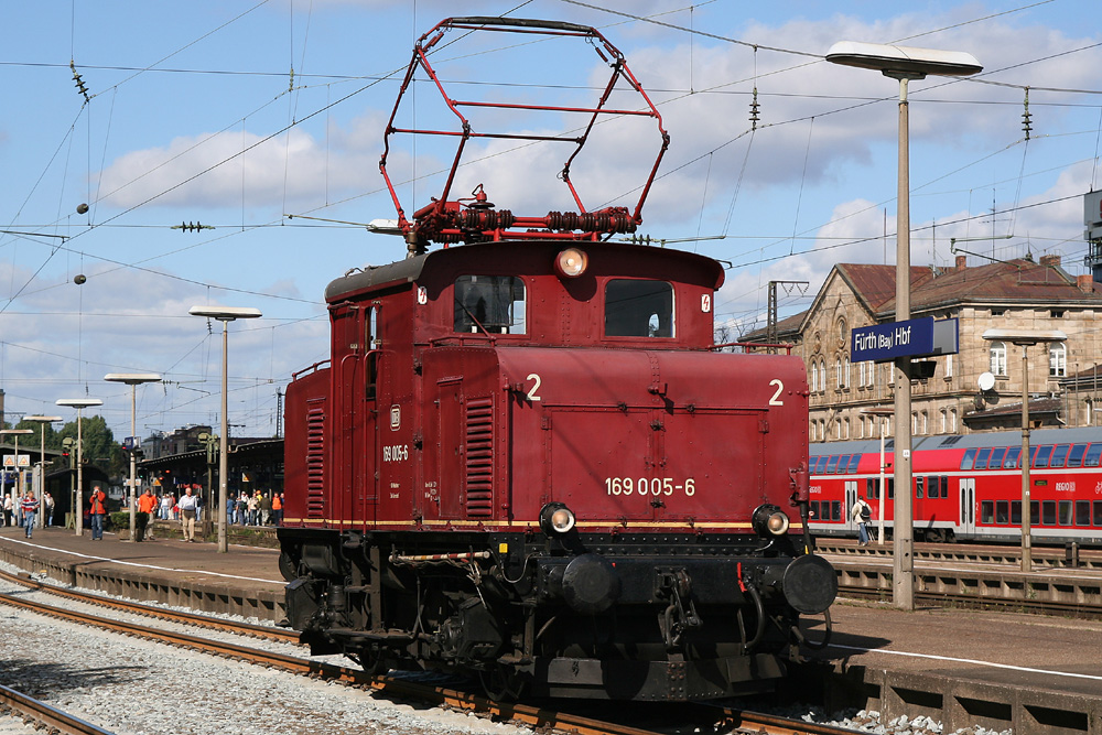 The locomotive 169 005 on the railway station of Fürth, Germany